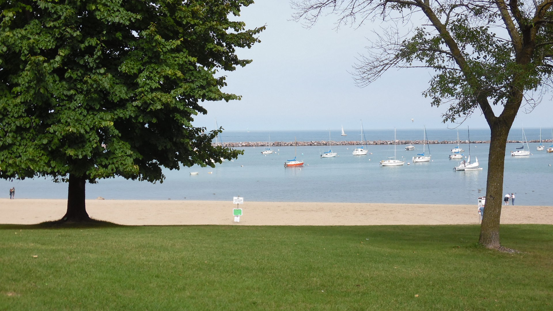 View of Lake Michigan from South Shore Park